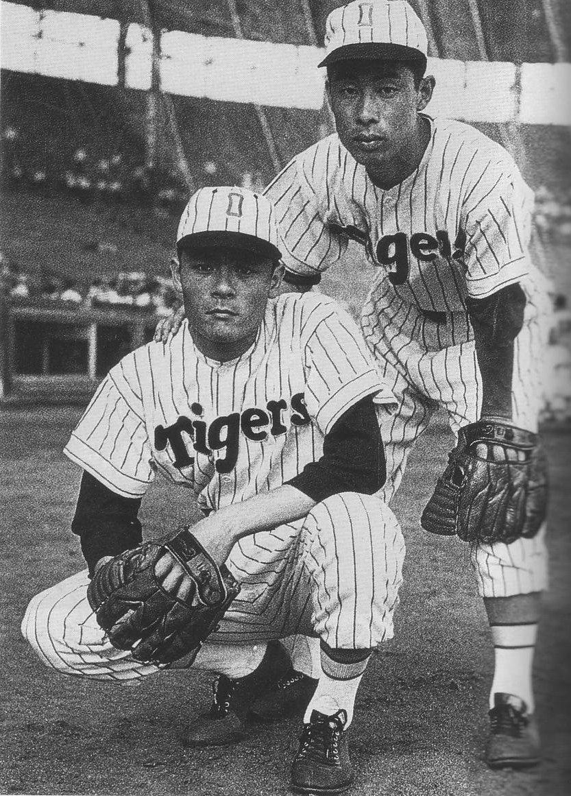 Masaaki Koyama (Left) and Shozo Watanabe (right), Player of Hanshin Tigers, 1956.